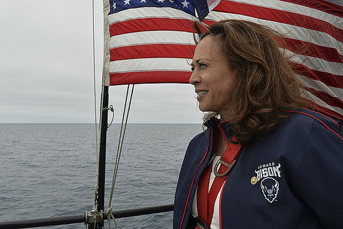 Kamala Harris in July 2018.